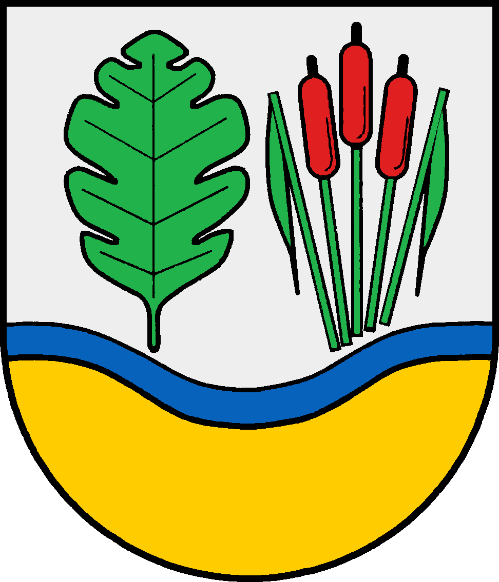 Coat of arms of the municipality Lehmkuhlen in Schleswig-Holstein, Germany.